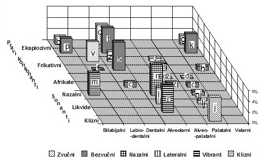 Frequency of Serbo-Croatian consonants